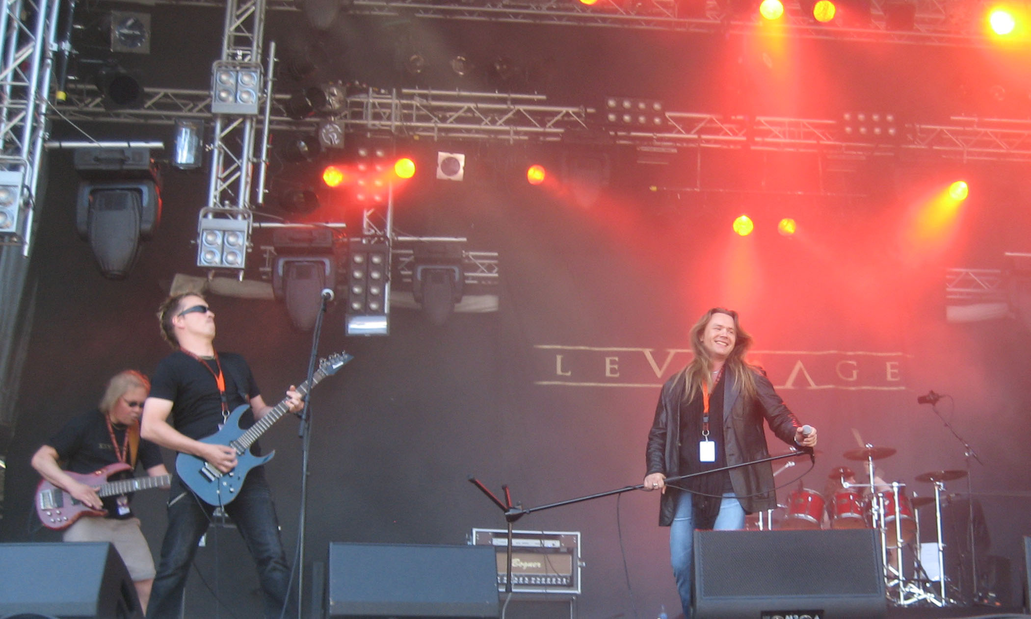 Leverage at Sauna open air metal festival